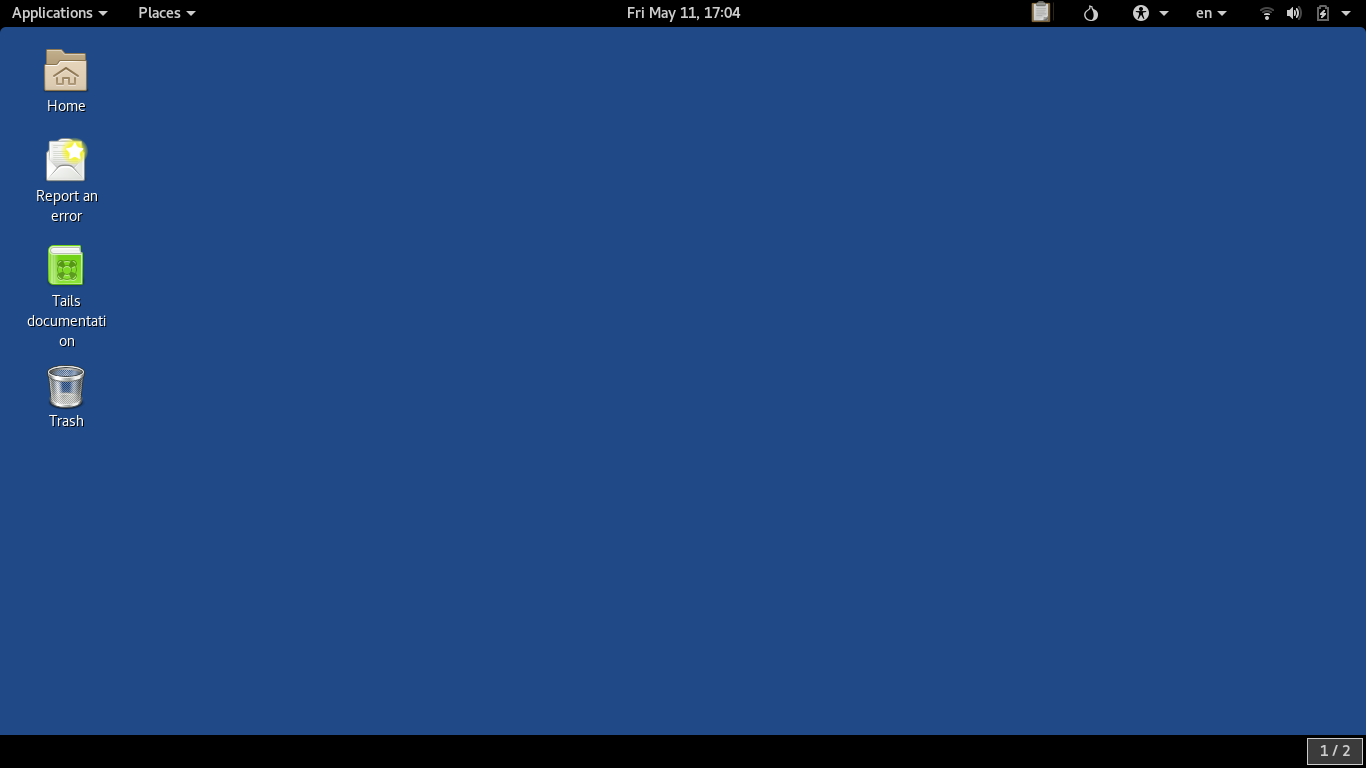 Screenshot of Tails desktop